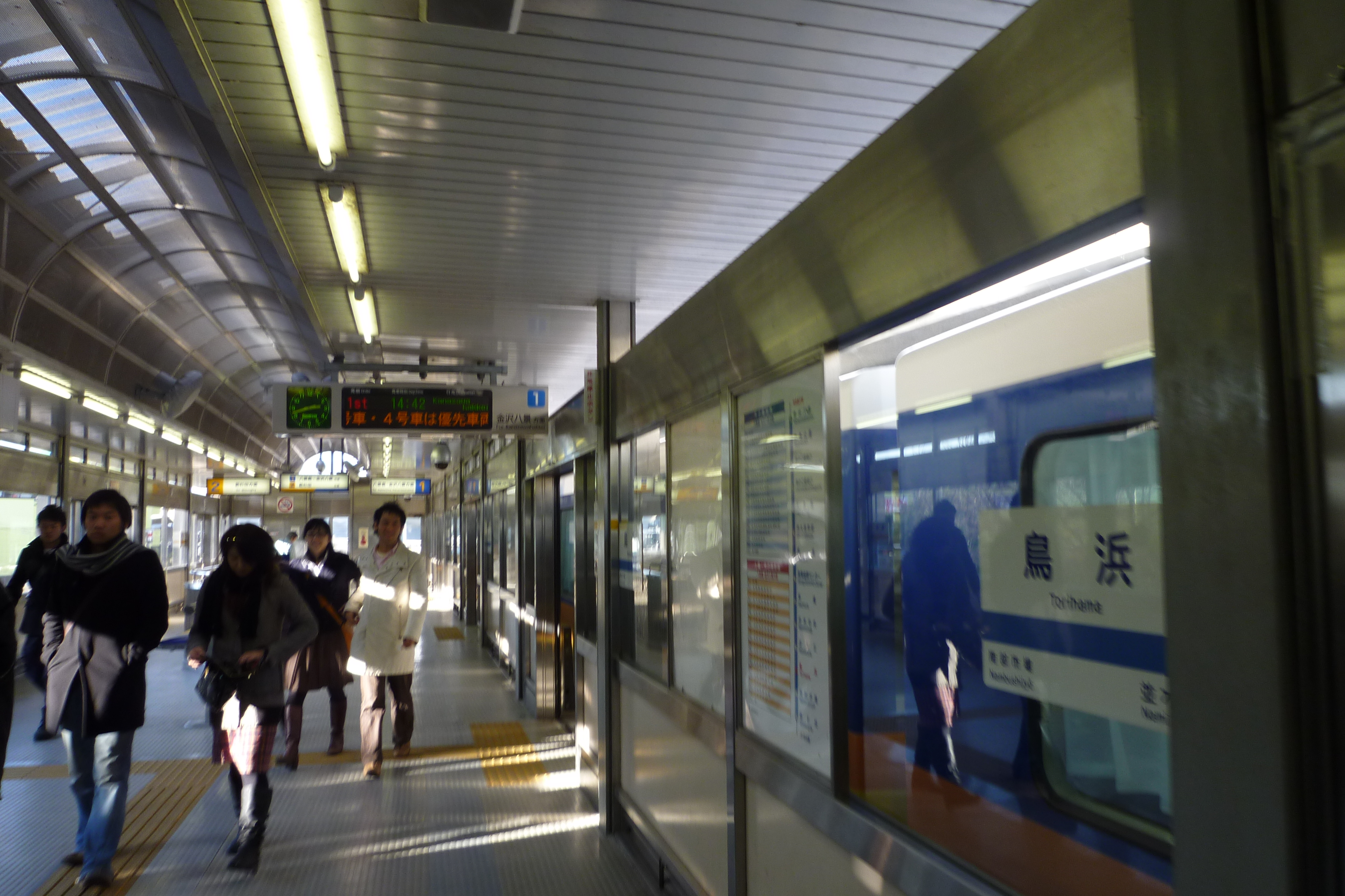 Torihama Station on Kanazawa Seaside Line